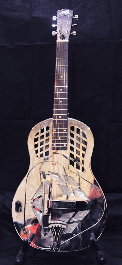 Recording King Tricone (RM-991 or RM-991-S (square neck)) from Flickr album "200907 My Guitars" by John Clift "My current collection of guitars - five of them are self-built"